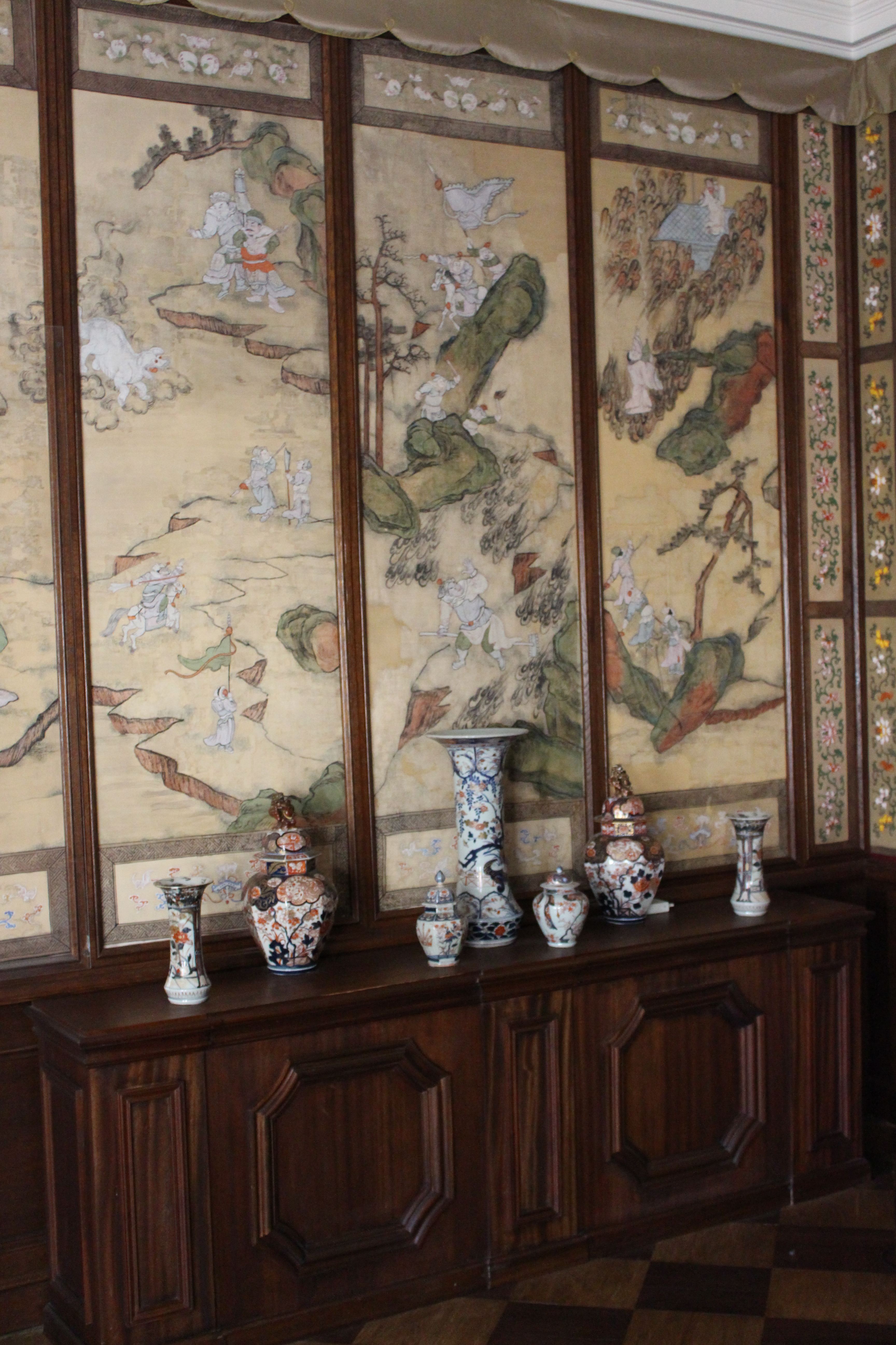 Menshikov palace in Universitetskaya enbankment, Saint Petersburgת Russia.